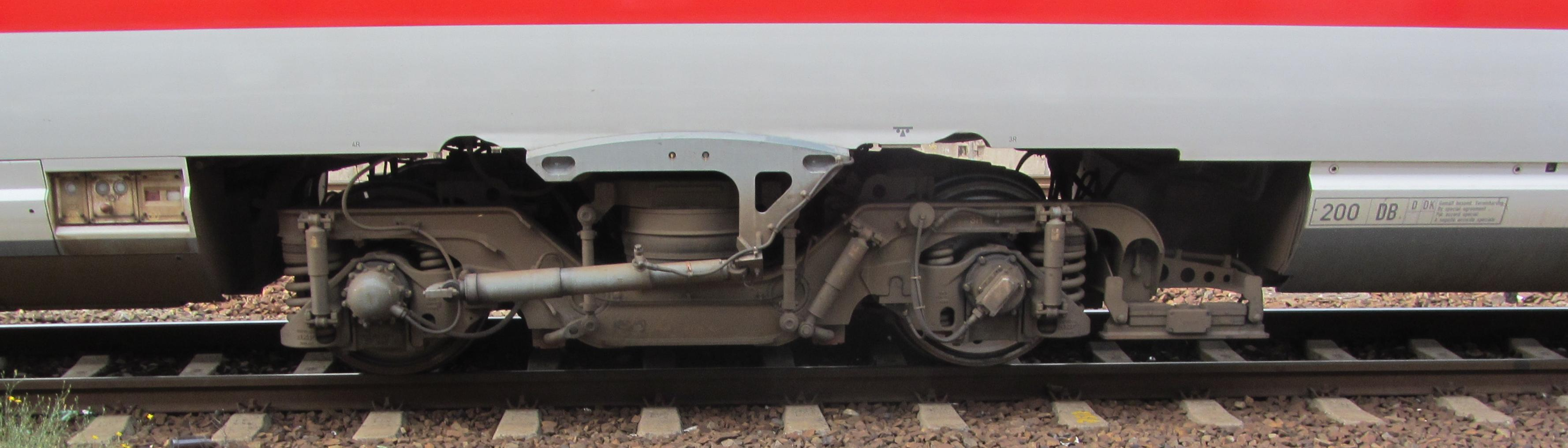 The bogie (US: truck) of an ICE-D train, the Diesel powered ICE of Deutsche Bahn AG, Class 605